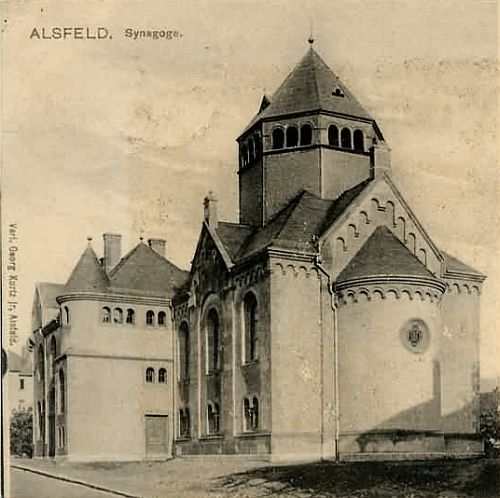 Synagogue in Alsfeld, destroyed by th nazis during the Cristal Nacht (1938)